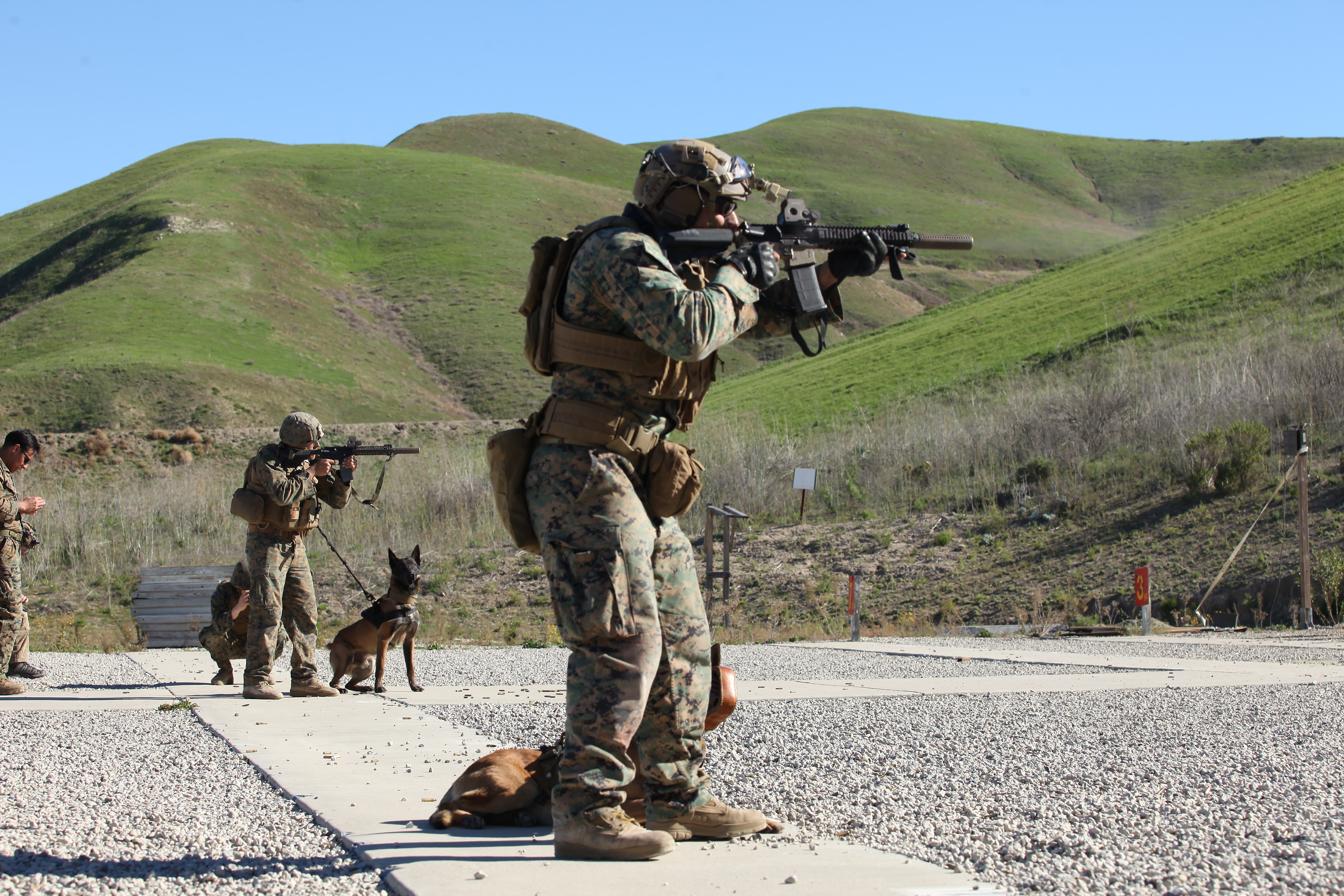 U.S. Marine multipurpose canine handlers, with the United States Marine Corps Forces Special Operations Command (MARSOC), aim during a live fire canine training on Camp Pendleton, Calif., Feb. 5, 2016. MARSOC specializes in direct action, special reconnaissance and foreign internal defense and has also been directed to conduct counter-terrorism, and information operations. (U.S. Marine Corps Photo by Lance Cpl. Roderick Jacquote/Released) Unit: Marine Corps Installations West- Marine Corps Base Camp Pendleton Combat Camera